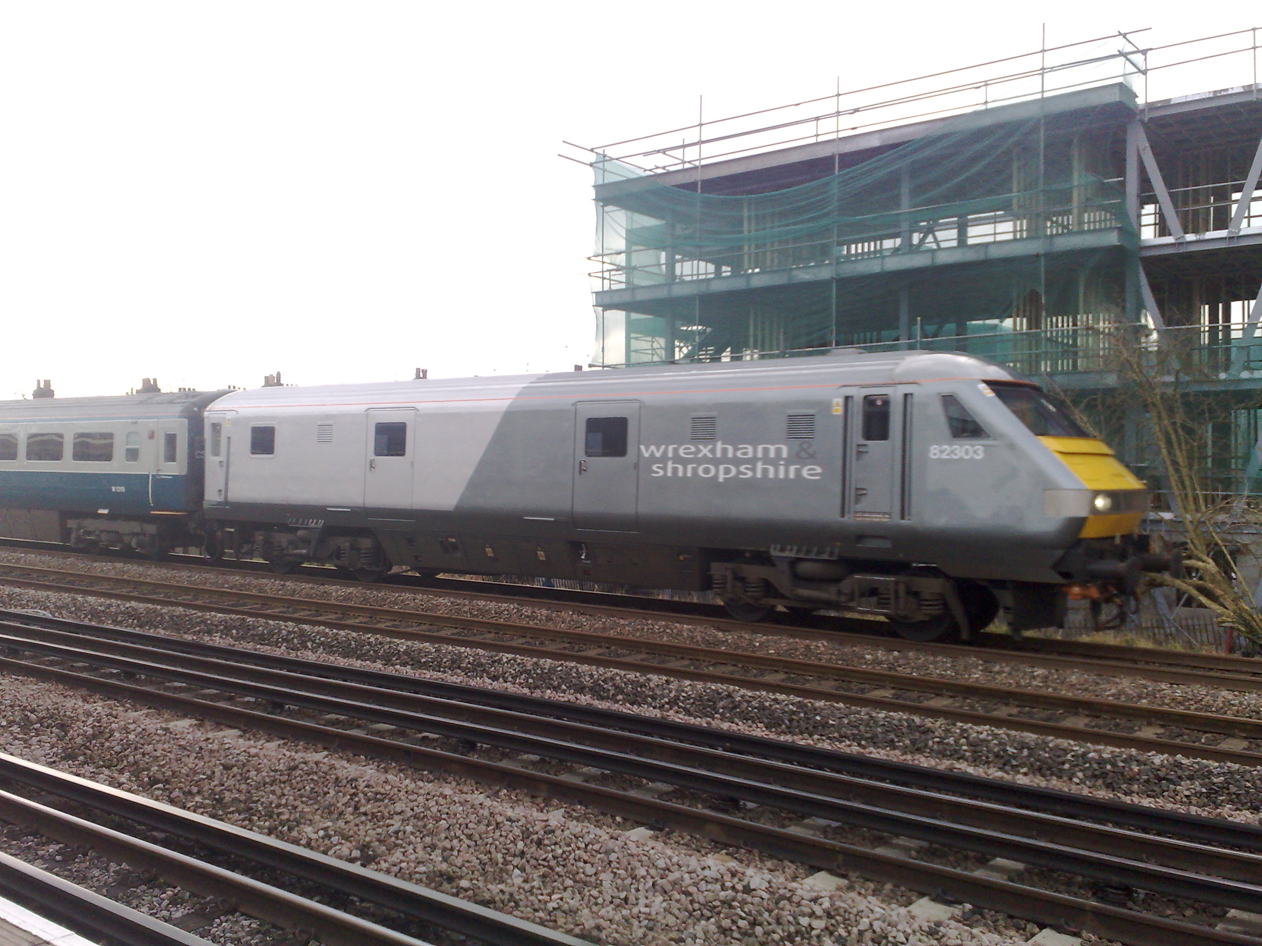 Driving Van Trailer 82303 leads a rake of Wrexham and Shropshire coaches northbound at Dollis Hill